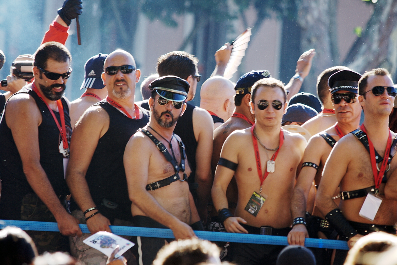 LGBT pride parade in Madrid (Spain) 2008